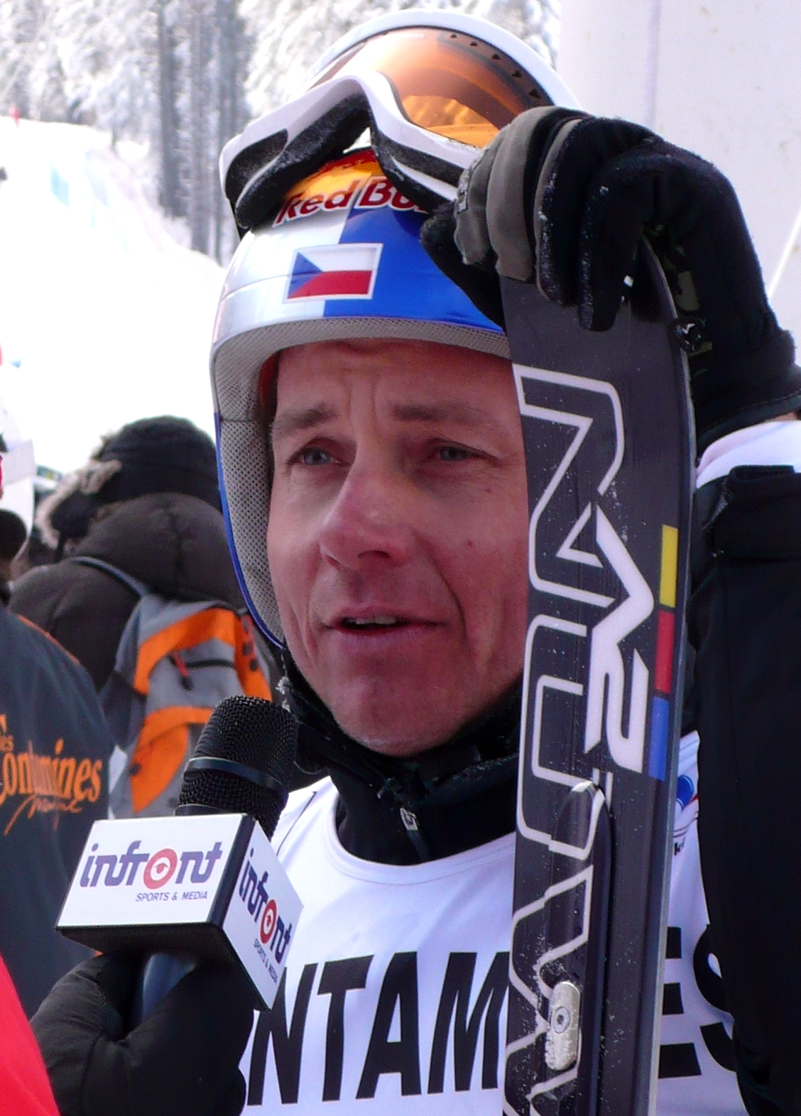 Tomáš Kraus at Les Contamines-Montjoie on 2010-01-10)